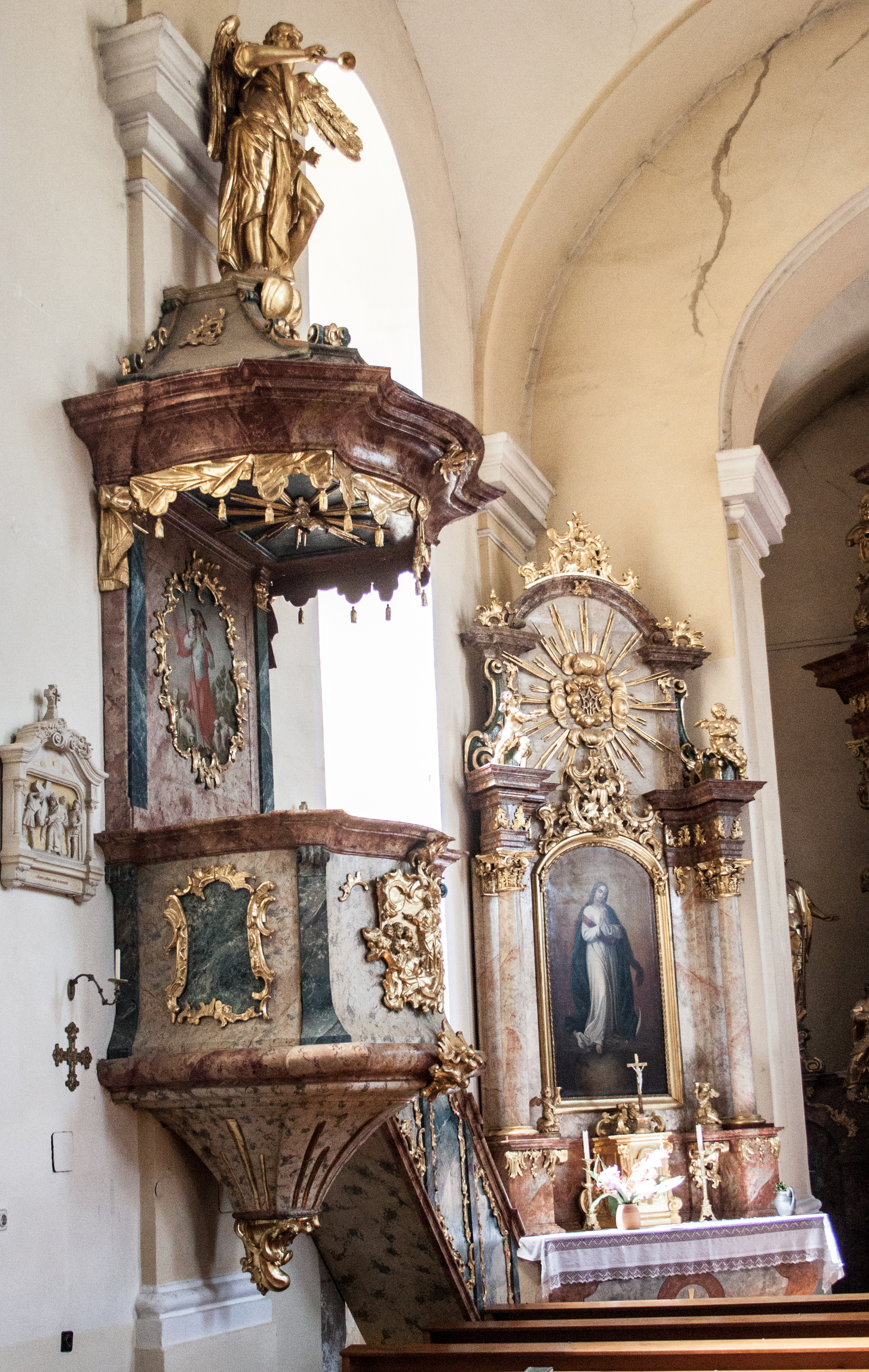 Pulpit_in_the_Roman_Catholic_Church_in_Bakonybél,_Hungary